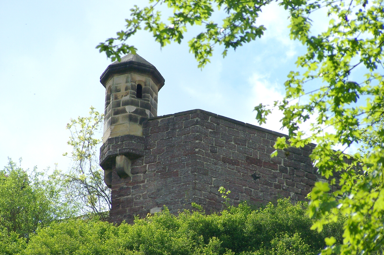 The Bastion.